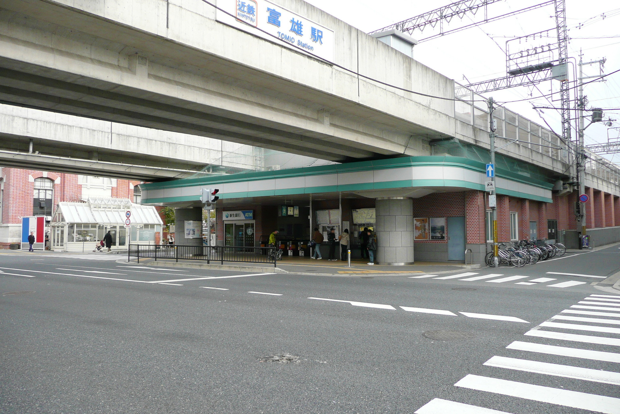 Kinki Nippon Railway,Nara Line,Tomio Station west entrance. / 近鉄奈良線富雄駅西口